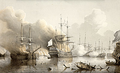 The French flag ship "Le Glorieux" fires at the burning Dutch ships. On the left a burning Dutch provision vessel.